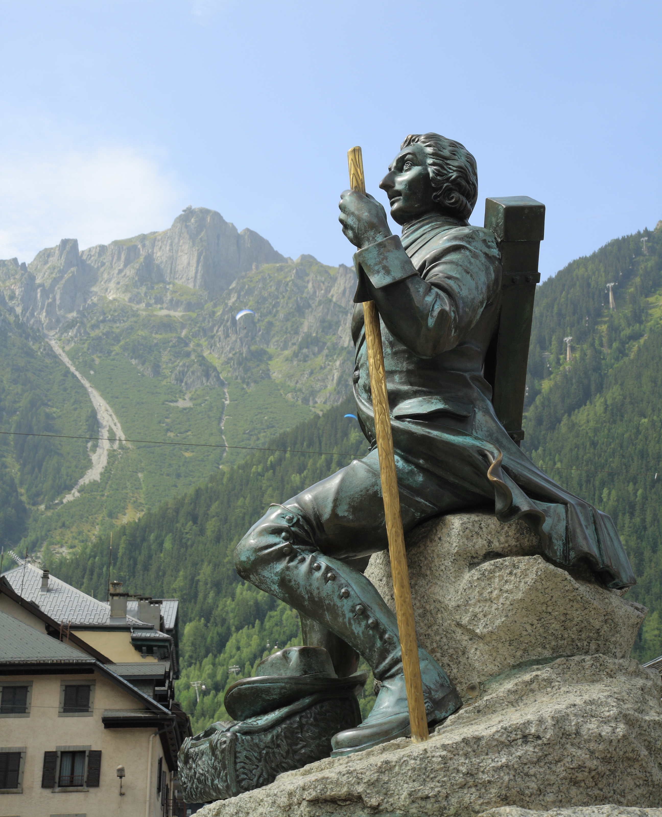 Statue of Michel Paccard, facing the Mont-Blanc, in Chamonix, France.